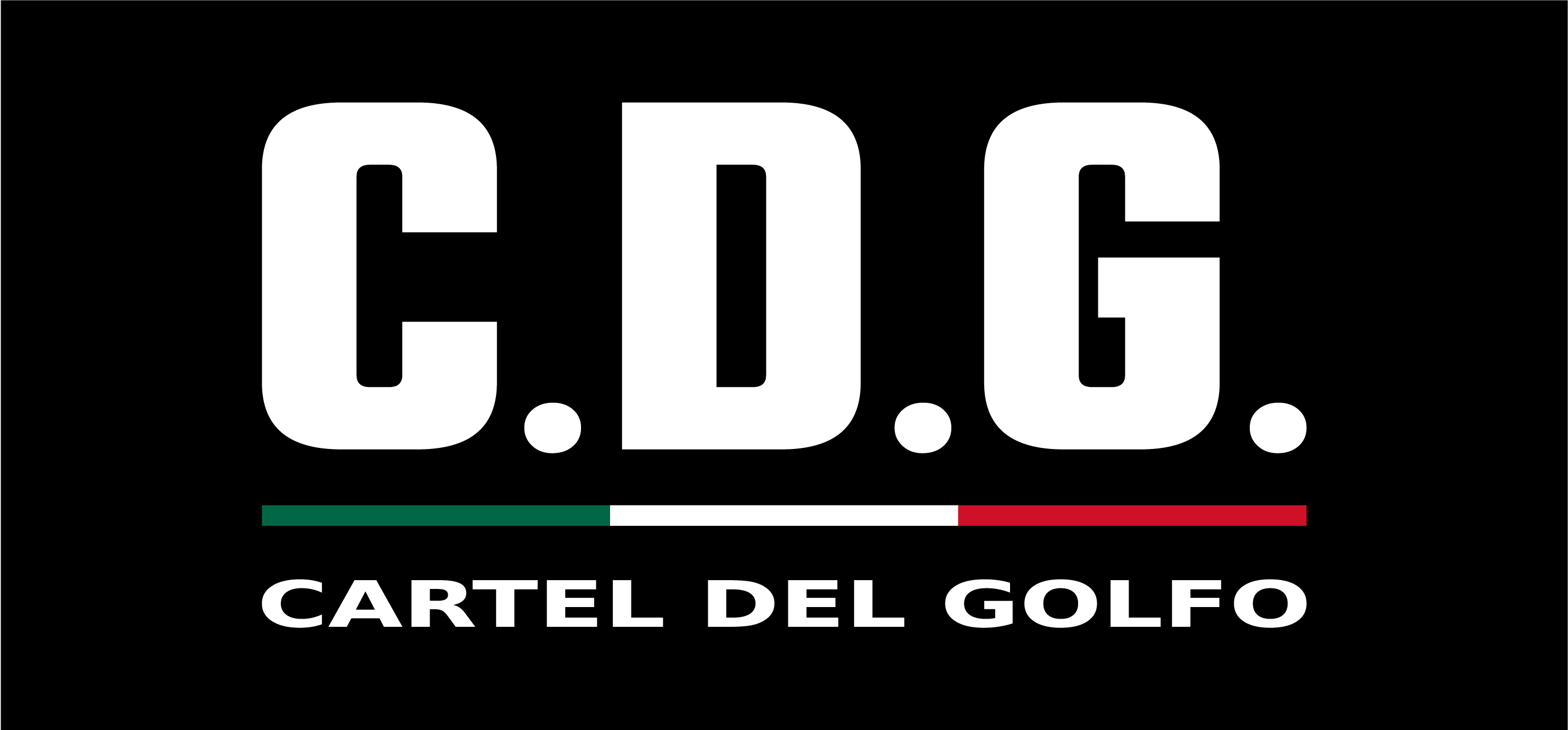 Logotype used by the Gulf Cartel. Based on [1].